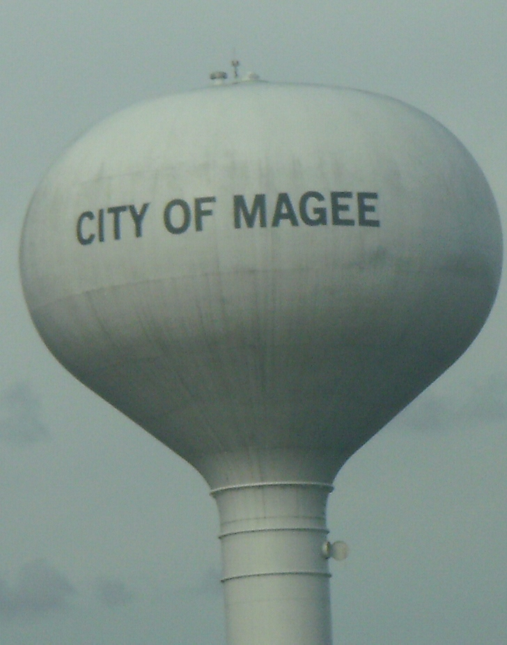 City of Magee water tower Magee,Mississippi